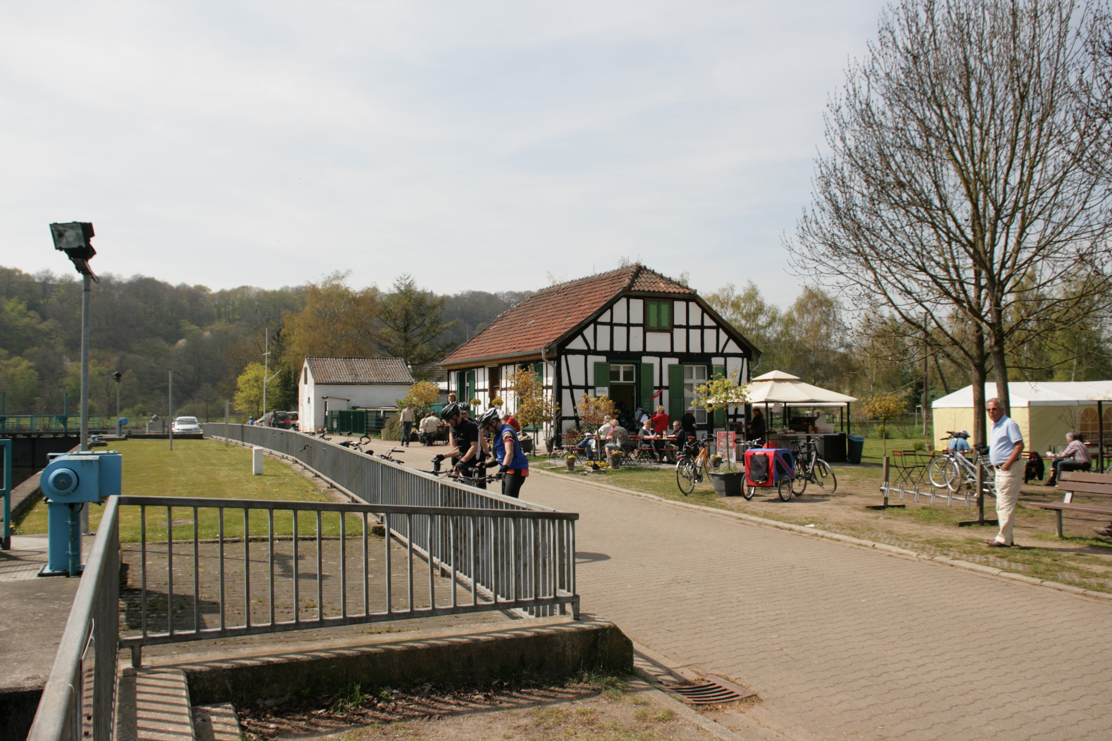 Inn Schleusenwärterhaus at Ruhr in Witten-Heven